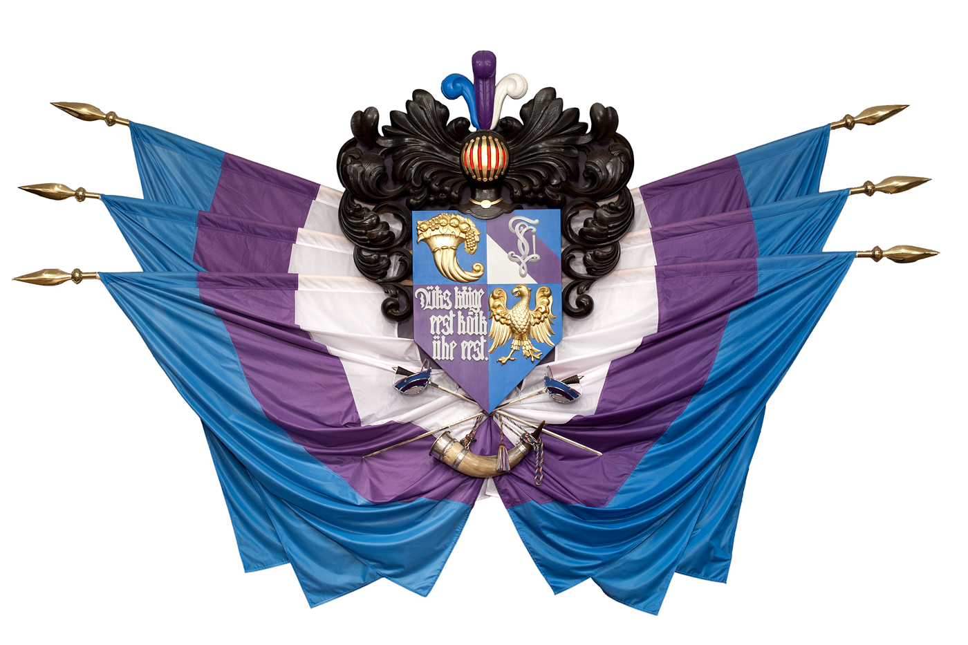 Coat of arms of Korporatsioon Sakala.